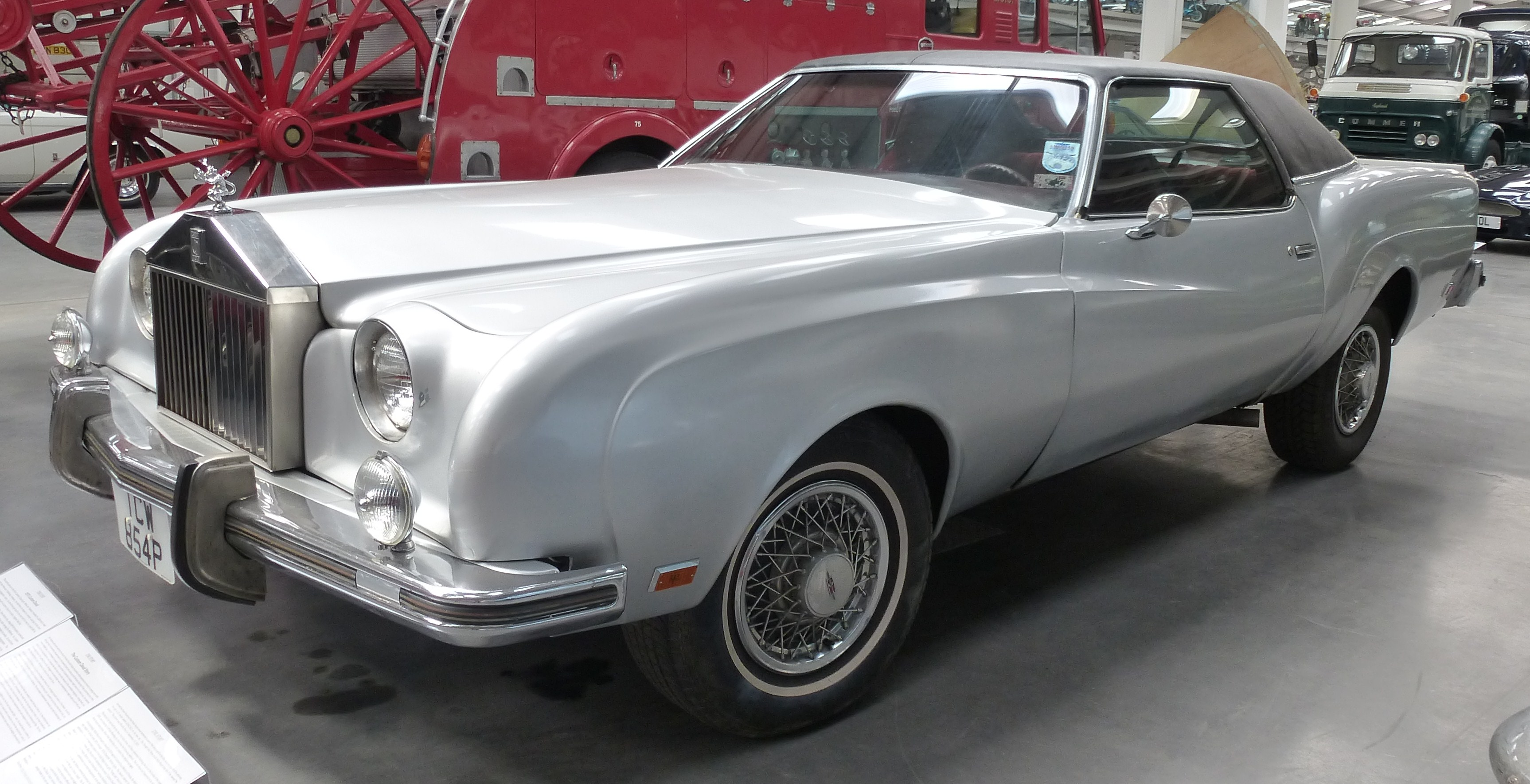 Custom Cloud von 1975